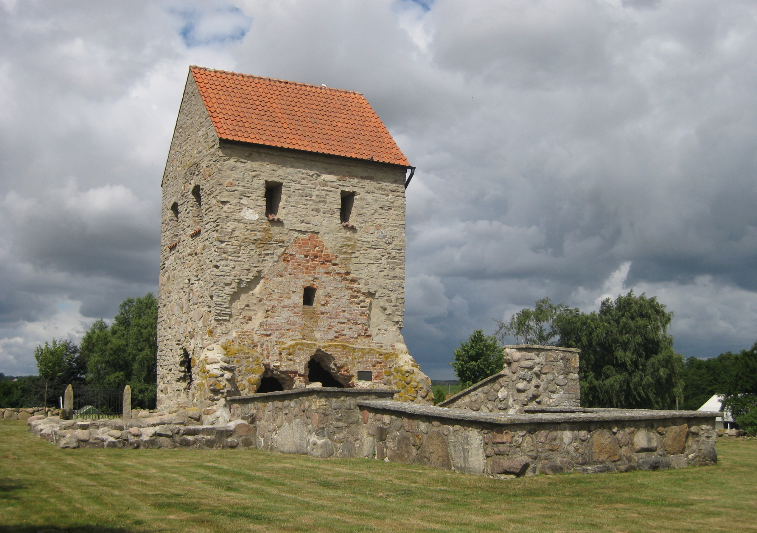 Abandoned church in Nedraby, Skåne, Sweden